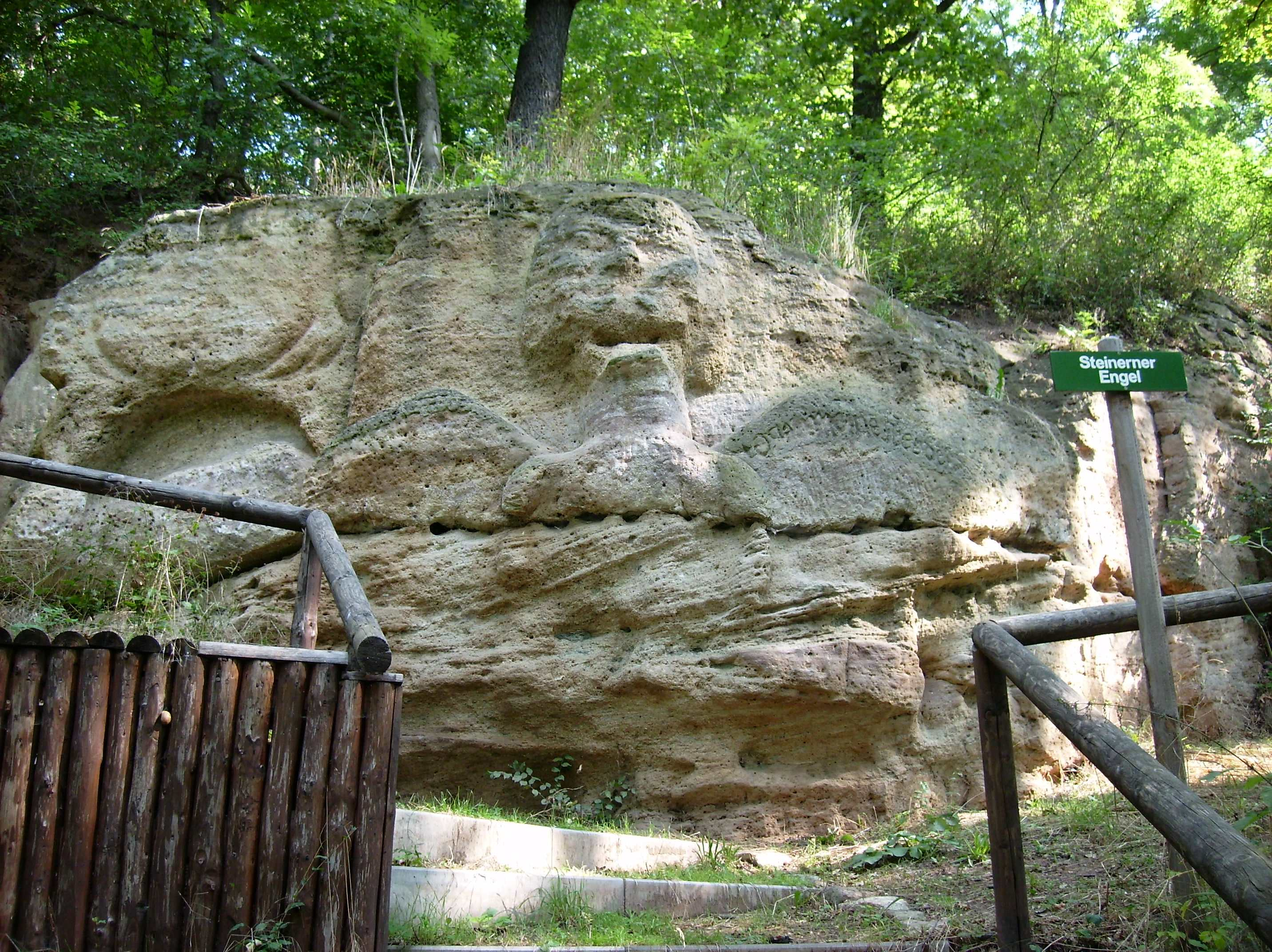 Stone Angel, relief (probably about 1700) in the Wethau Valley between Schönburg and Wethau (district of Burgenlandkreis, Saxony-Anhalt)